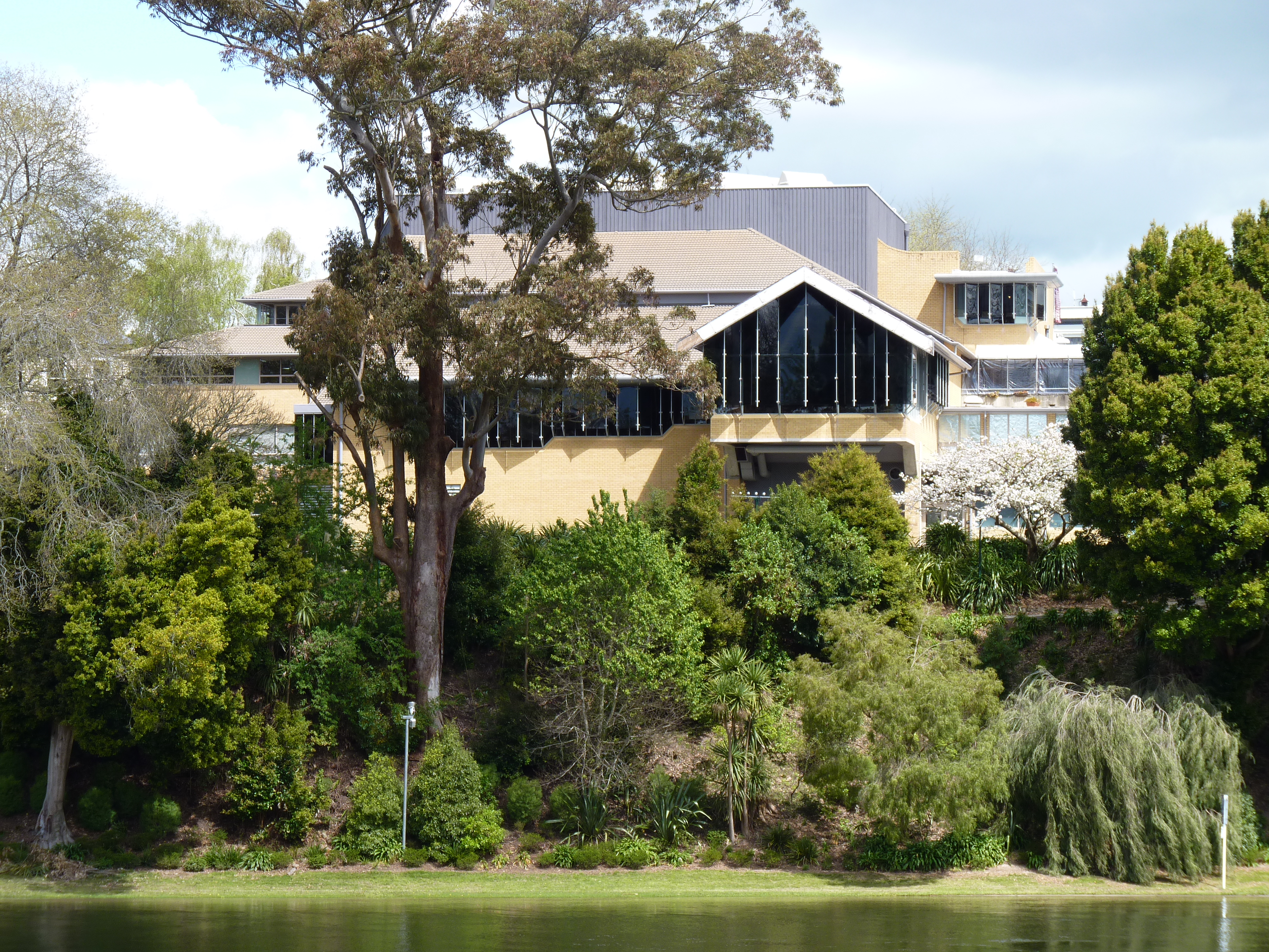 Waikato Museum, viewed from Memorial Park, Hamilton East.